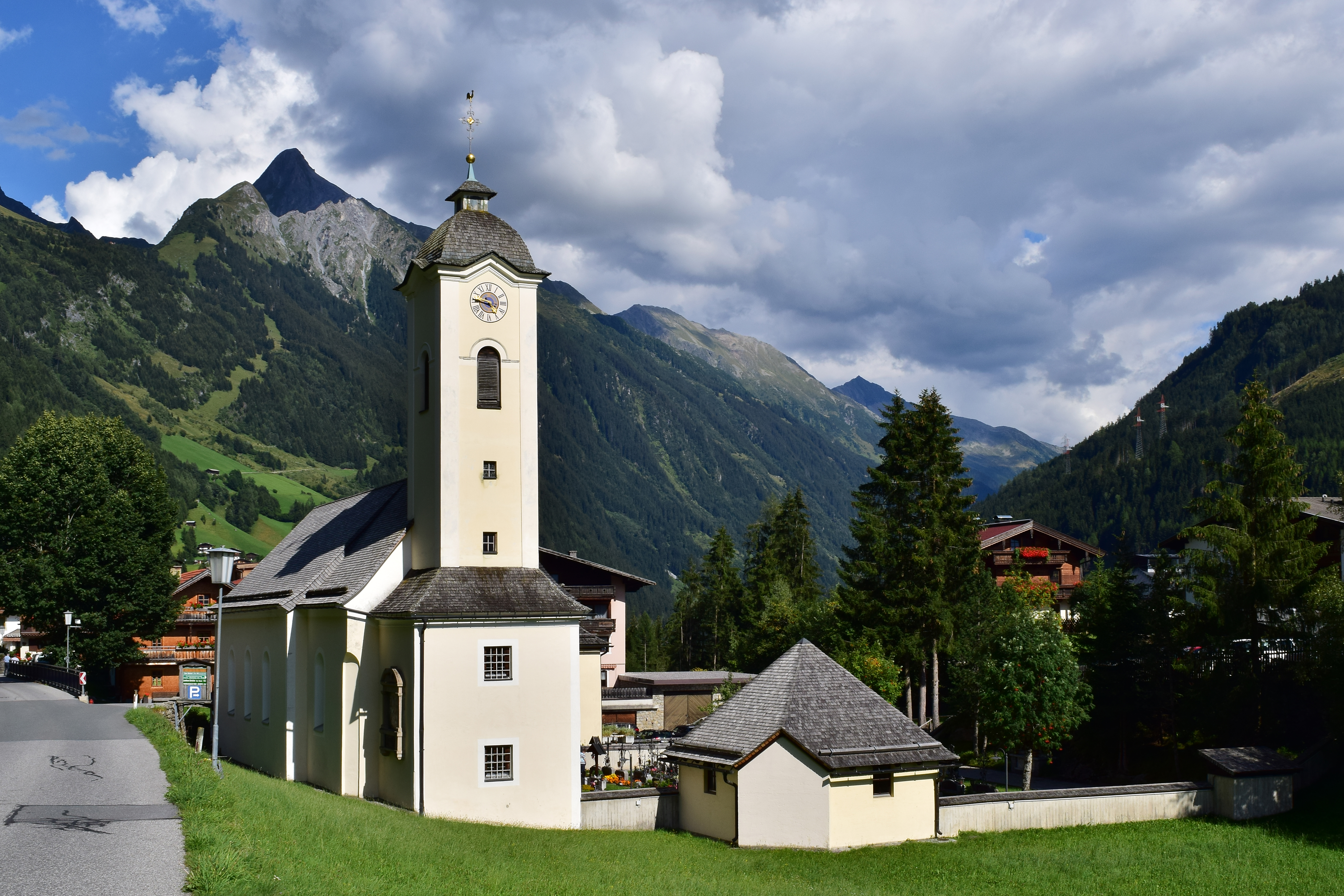 Parish church and Cemetery in Brandberg, Tyrol